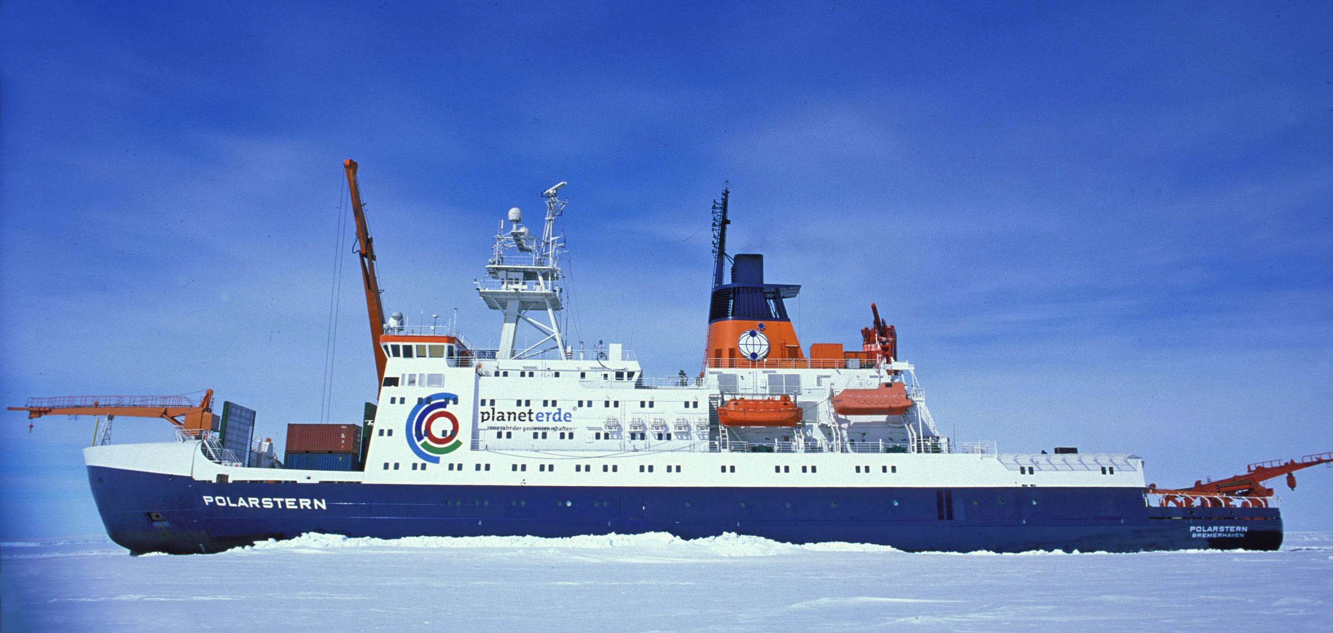 German polar research vessel POLARSTERN in Atka Bay, Antarctica during supply of Neumayer-Station